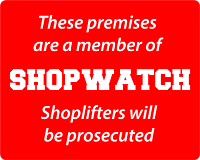 This is a typical example of a notice sign announcing that a retail premises is a member of a shopwatch scheme.